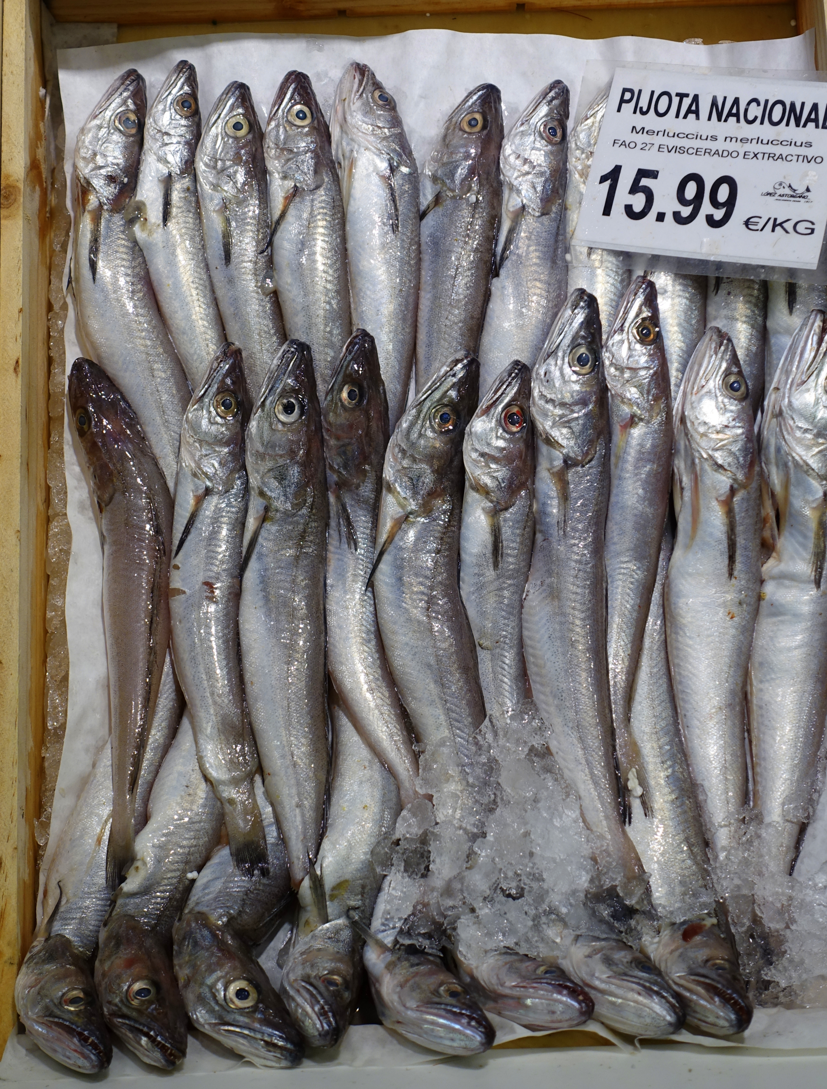 Food in Madrid, Spain.